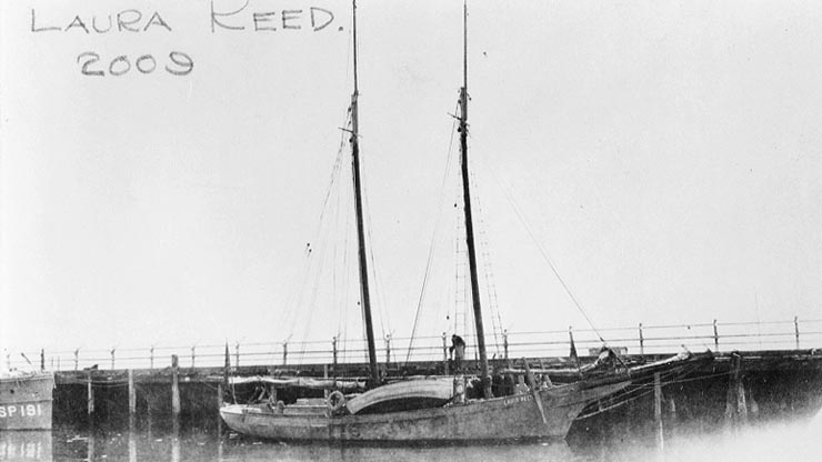 The civilian schooner Laura Reed prior to her United States Navy service as the patrol vessel . Her U.S. Navy section patrol number, 2009, is written on the photograph.